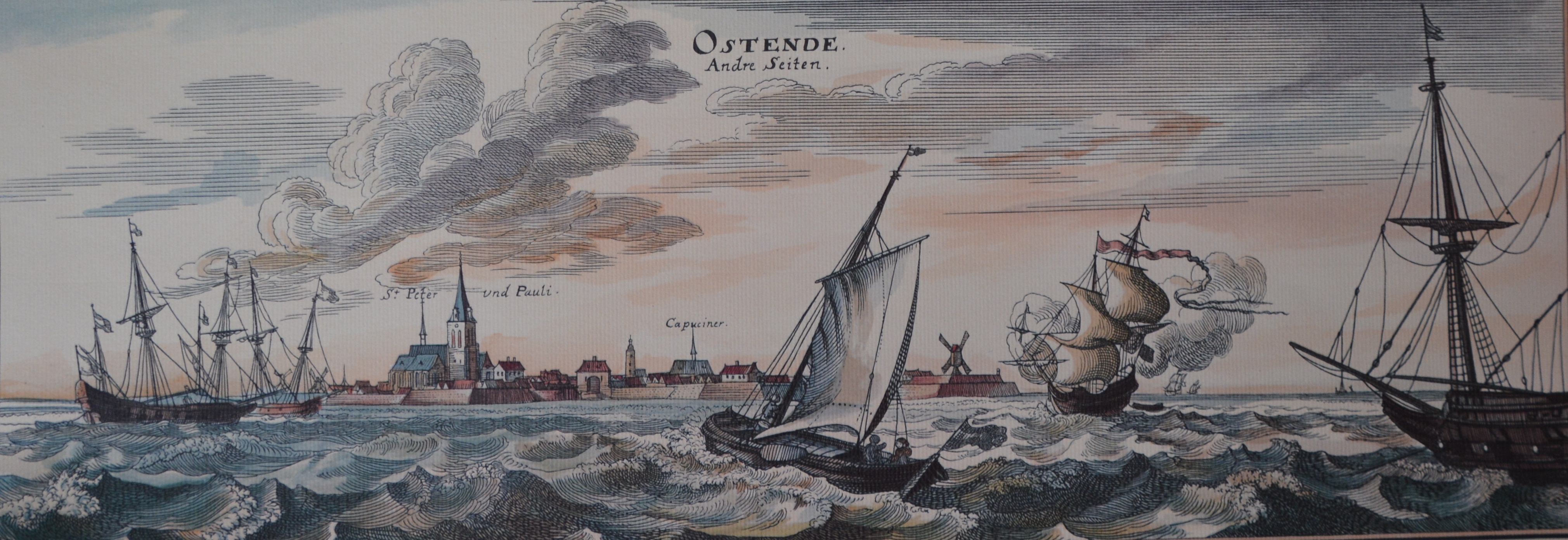 Etching by J. Peeters, 1644